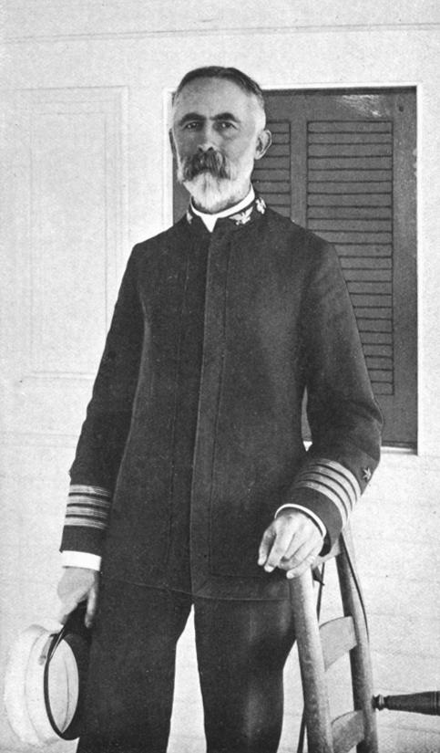 Rear Admiral William T. Sampson, from p. 73 of Cannon and Camera by John C. Hemment, published by Appleton and Co. in 1898.